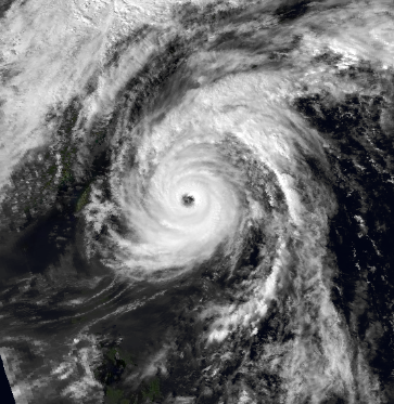 Typhoon Mireille after peak intensity on September 26th.